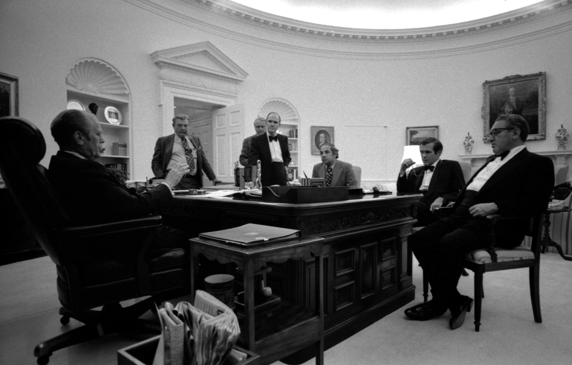 President Ford and senior staff members stay late into the night to learn of the recapture of the S.S. Mayaguez and its crew. Left to right: President Ford, Counsellor Robert T. Hartmann, Counsellor John Marsh, Deputy Assistant for National Security Affairs Brent Scowcroft, Press Secretary Ron Nessen, Chief of Staff Donald H. Rumsfeld, Secretary of State Henry A. Kissinger